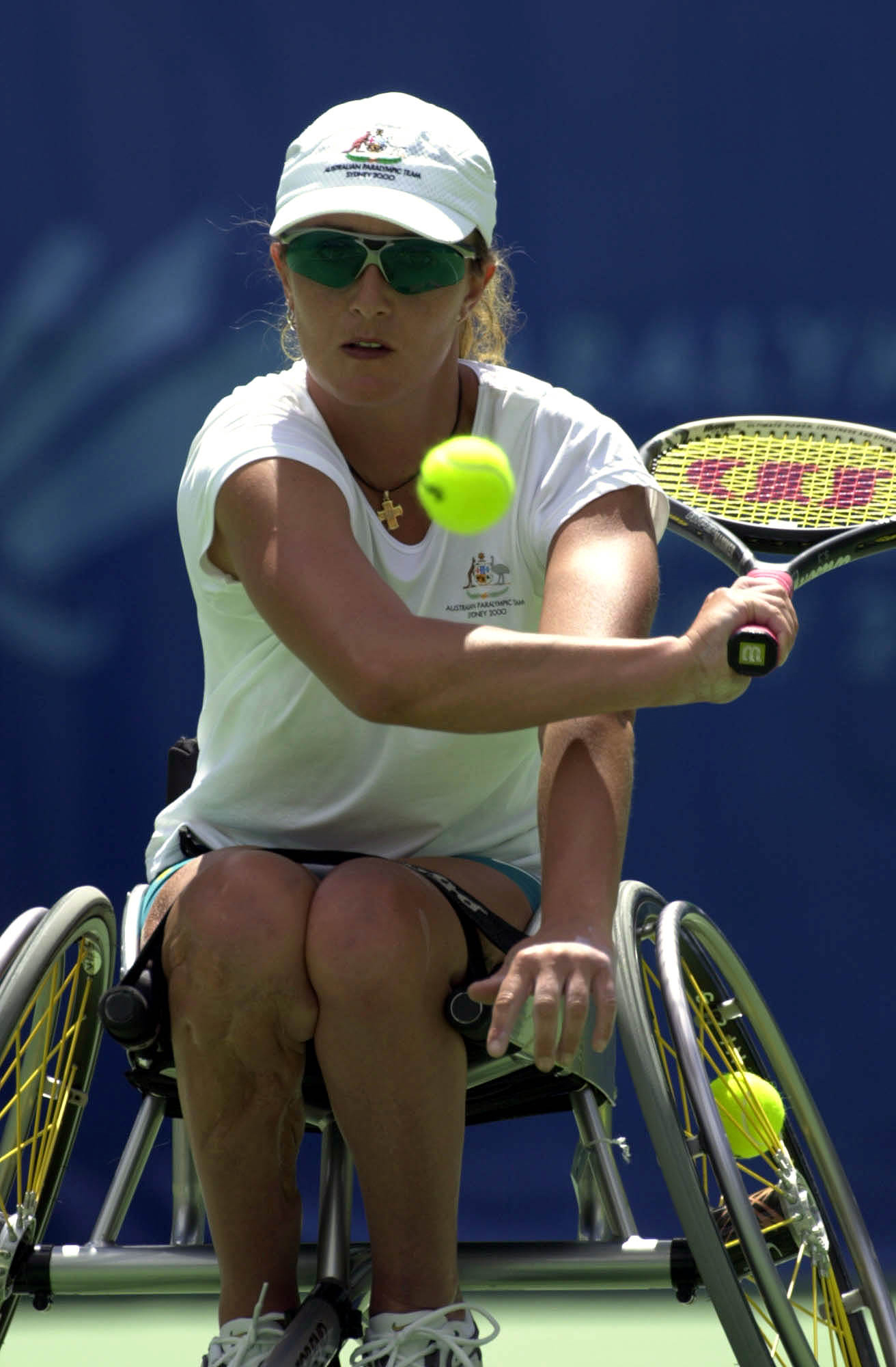 Australian wheelchair tennis player Branka Pupovac takes a backhand swing at the ball during 2000 Sydney Paralympic Games match